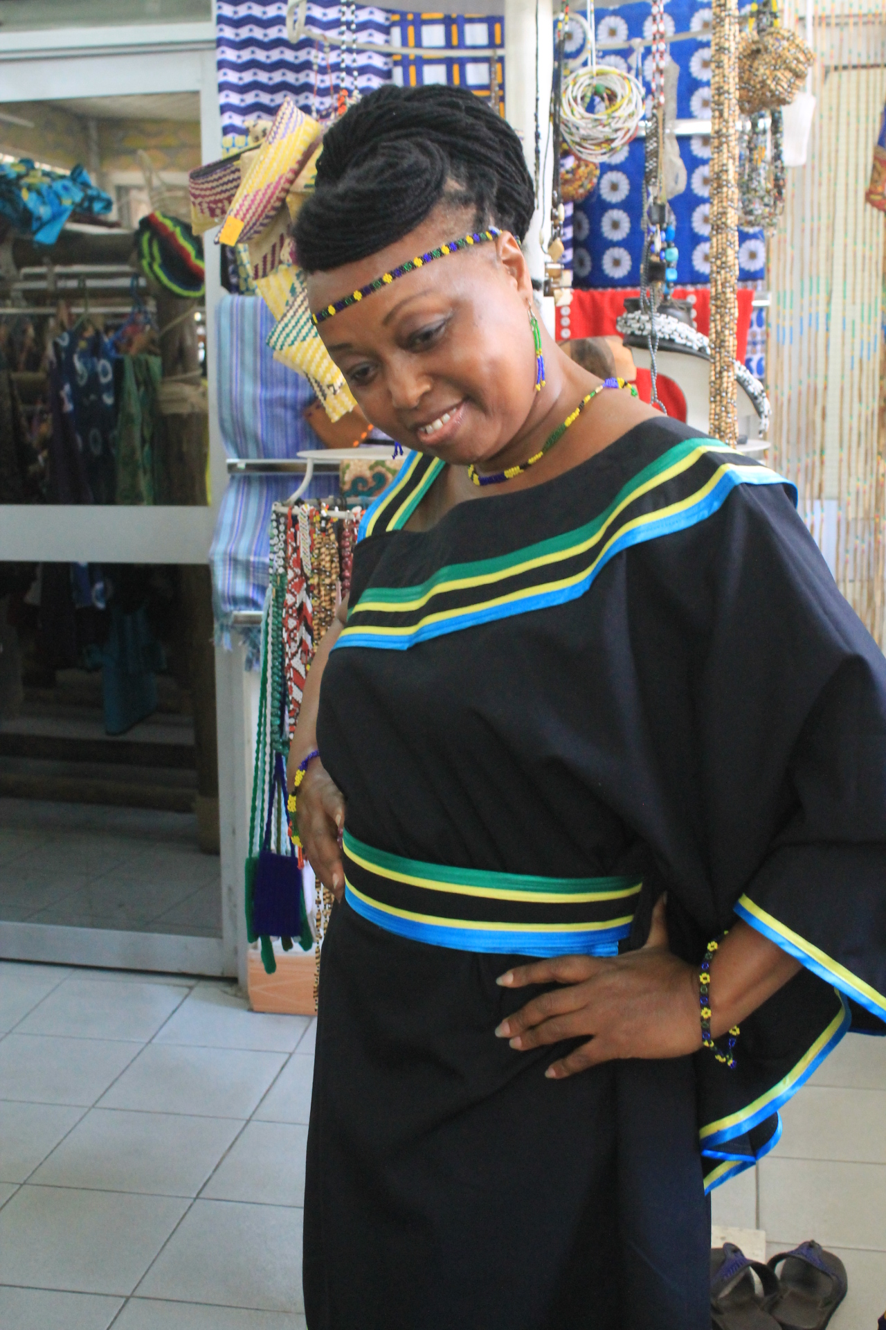 A fashion designer in Tanzania This is an image of "African people at work" from Tanzania